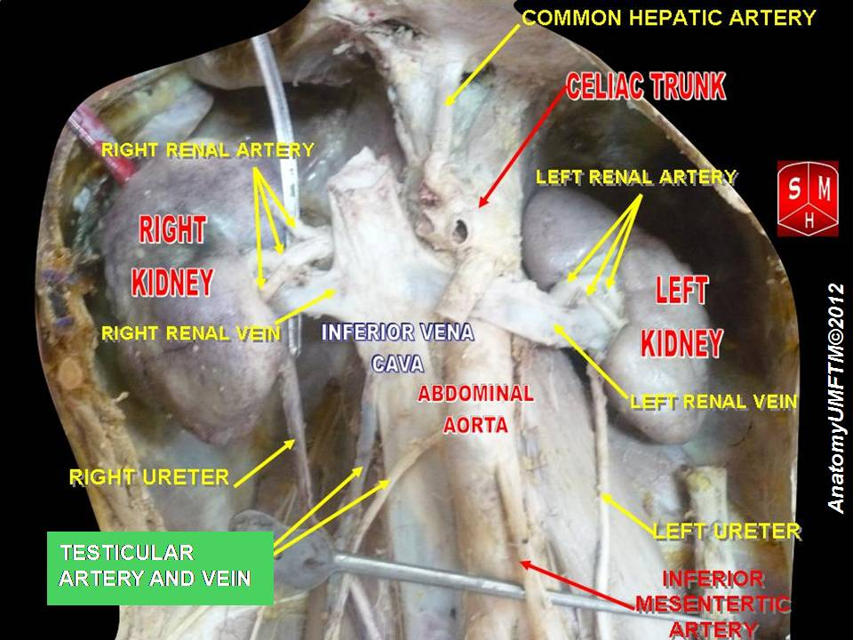 Anatomical dissection